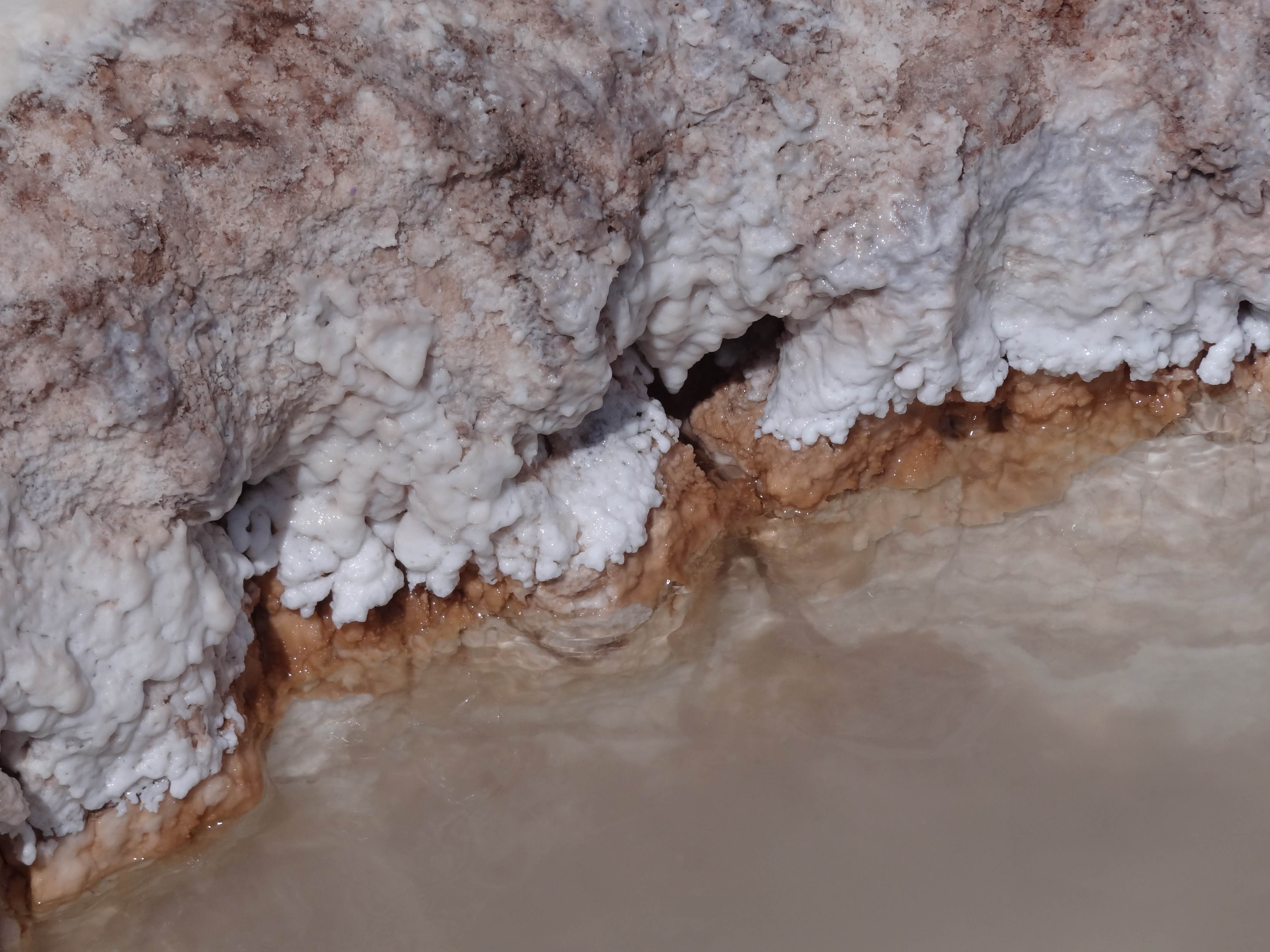 Probable extremophiles bacteria